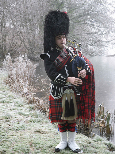 Piper James Geddes plays the most recognisable form of Bagpipe, The Scottish Great Highland Bagpipes, while wearing traditional Scottish Pipers Uniform.